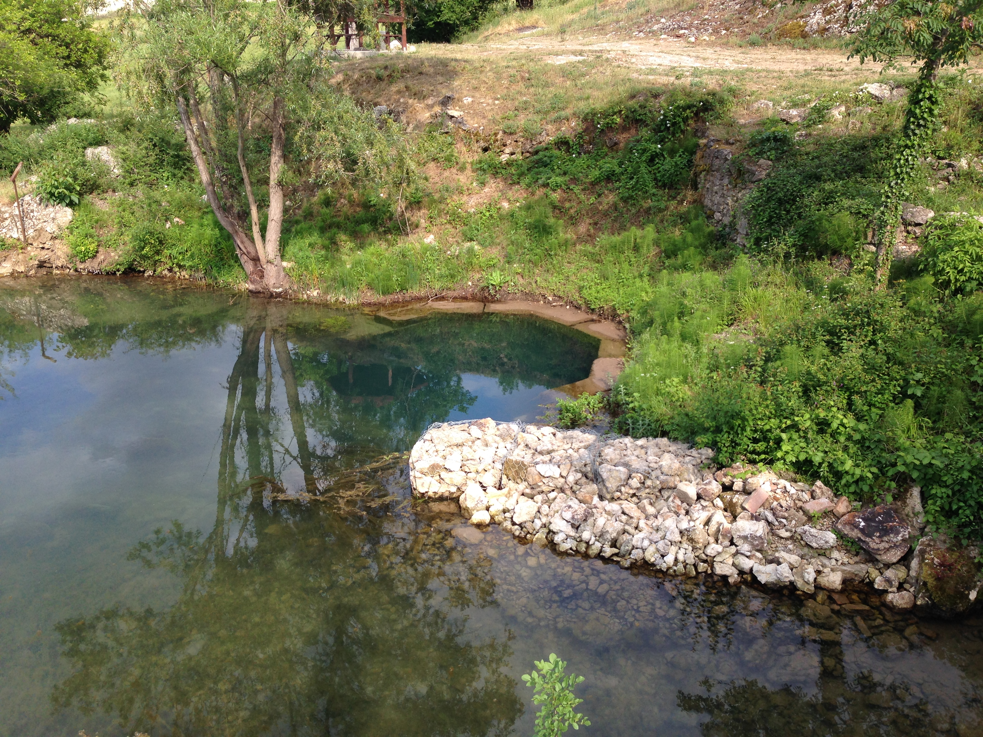 Aqueduct source of Nicopolis, remains of octagonal collection basin at Musina, Bulgaria